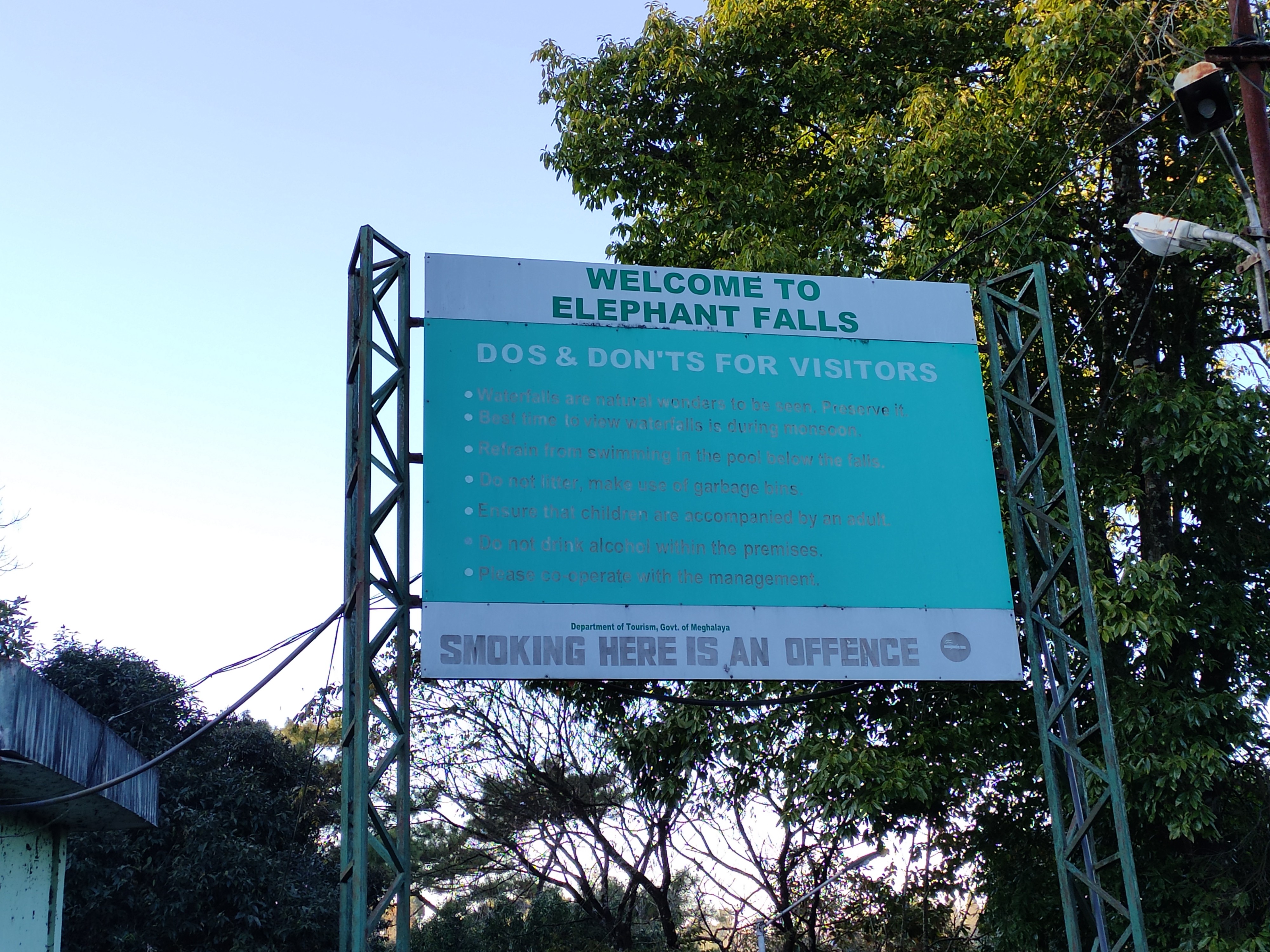 Elephant Falls is located 12 km on the outskirts of the Shillong city, the mountain stream descends through three successive falls set in dells of fern covered rocks.